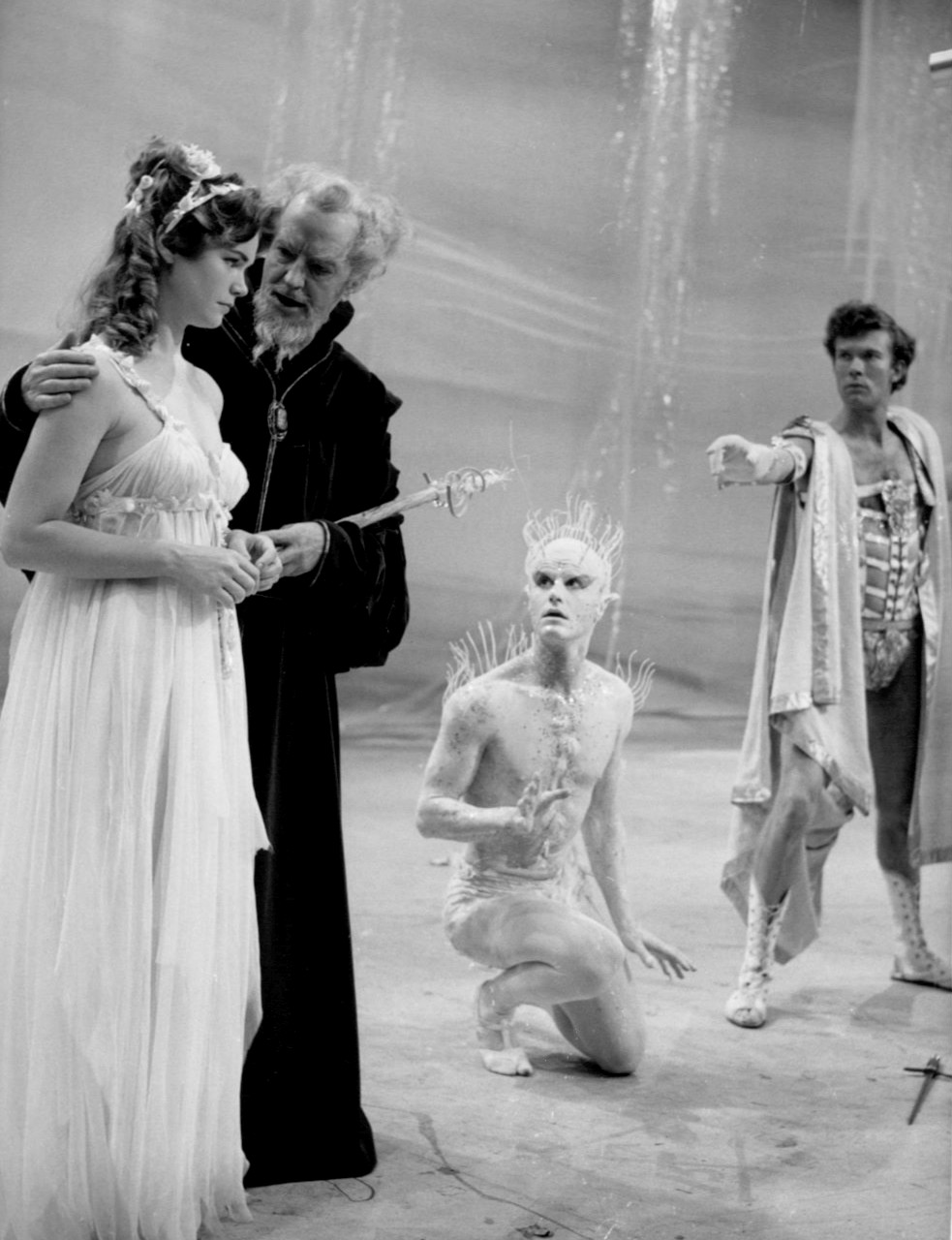 Photo from the Hallmark Hall of Fame presentation of The Tempest. From left-Lee Remick as Miranda, Maurice Evans as Prospero, Roddy McDowall as Ariel and William Bassett as Ferdinand.